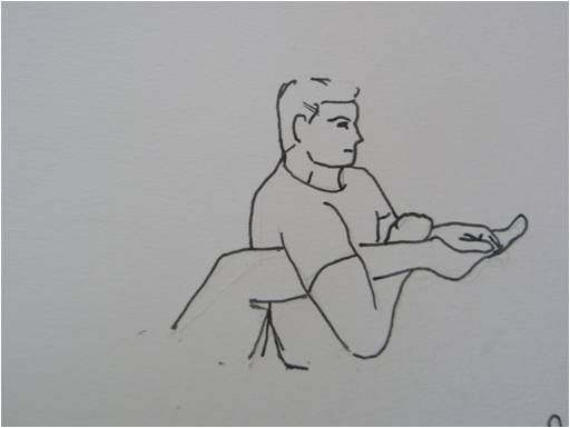 BJJ